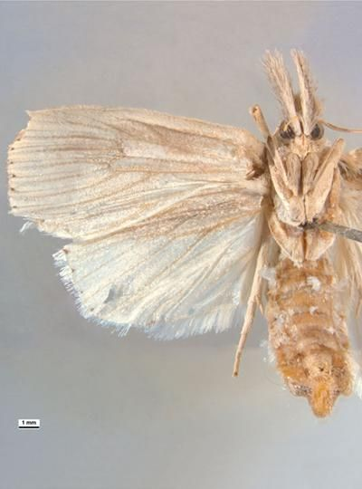 Sesemia grisescens male, ventral view Bubia, Morobe Province, PNG, Feb. 1981. G. R. Young ex Sugarcane. Det. G.R. Young 1981